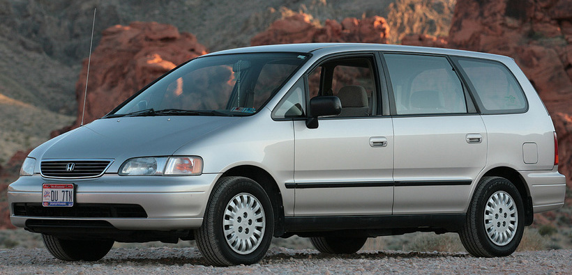 1996 Honda Odyssey taken at Valley of Fire Park in Nevada. Just the old family car in a nice pose.